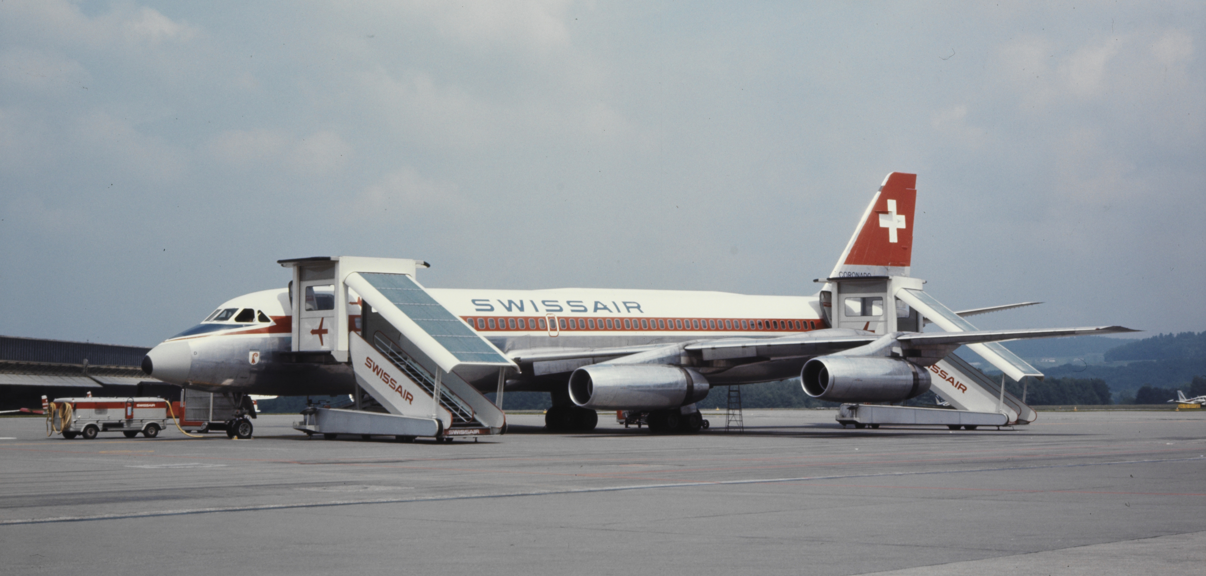 HB-ICD on the ground at Zurich Airport